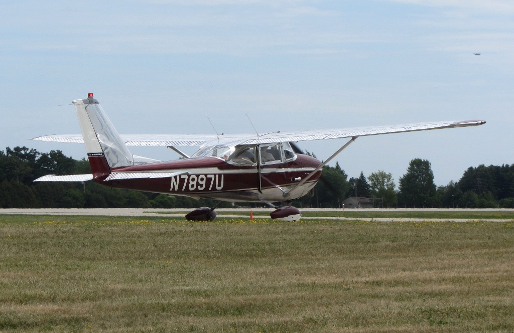 1964 Cessna 172F